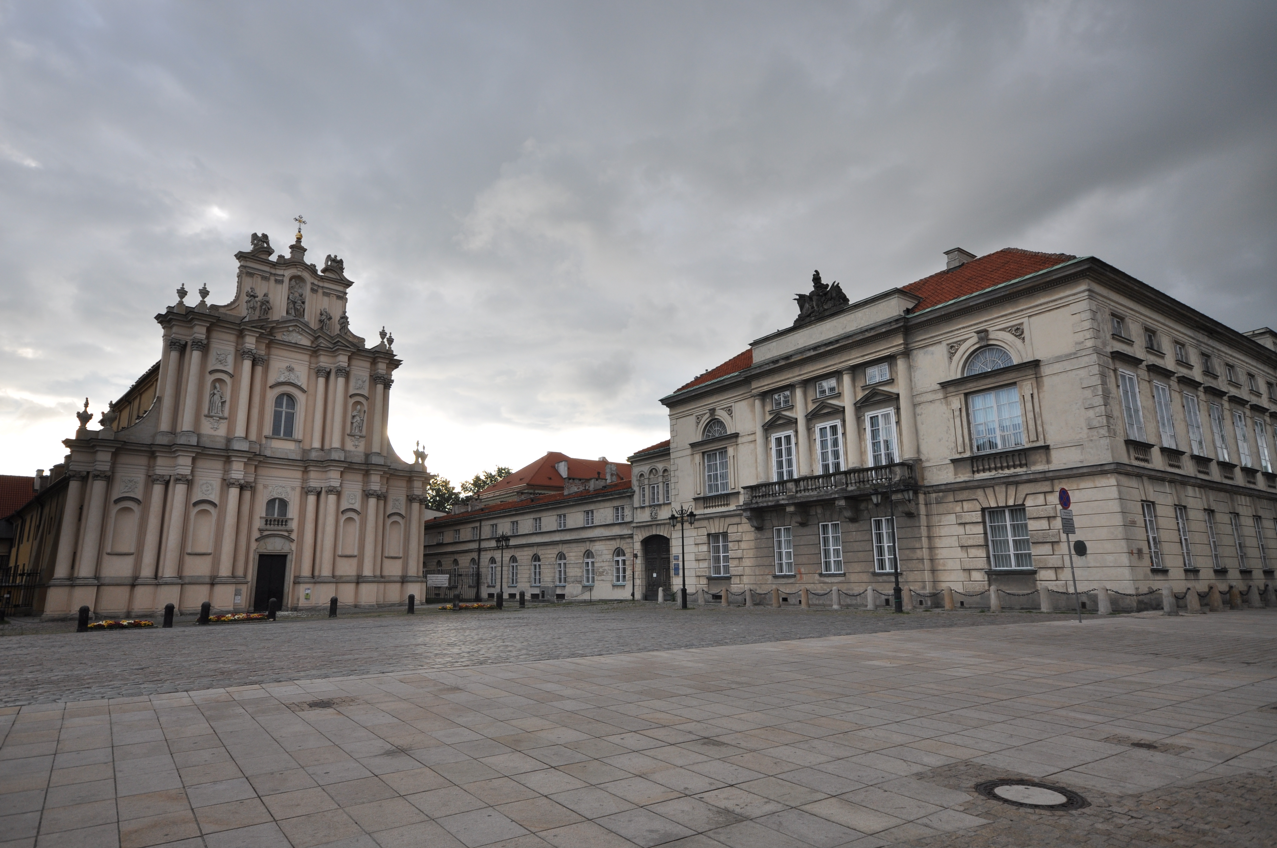 Church of St. Joseph of the Visitationists (Polish: Kościół Opieki św. Józefa w Warszawie) commonly known as the Visitationist Church (Polish: Kościół Wizytek) is a Roman Catholic church in Warsaw, Poland, situated at Krakowskie Przedmieście 34. One of the most notable rococo churches in Poland's capital, its construction was begun in 1664 and completed in 1761